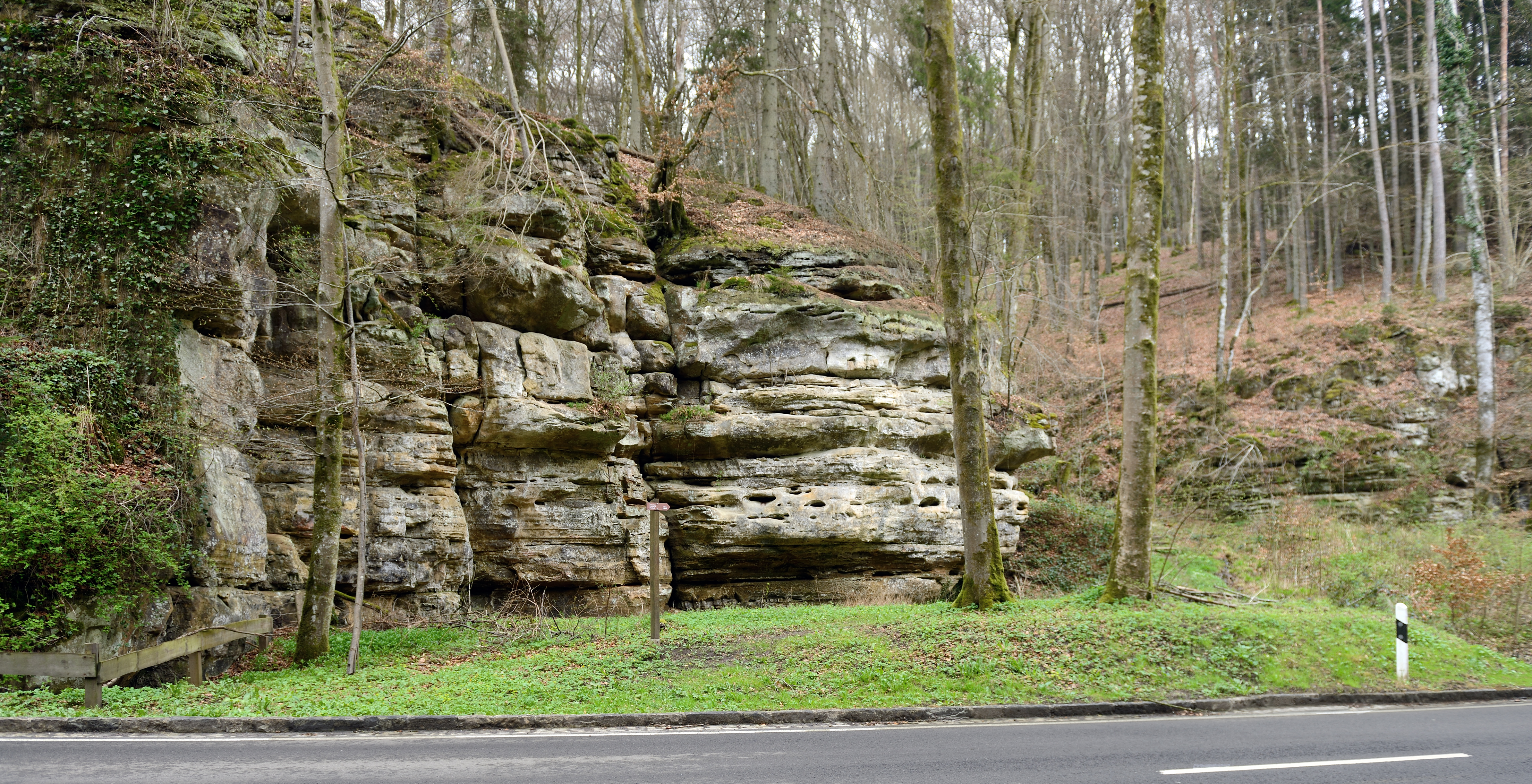 Lieu-dit Loschbour in Luxembourg, Mullerthal, where a well preserved mesolithic human skeleton was discovered in 1935.